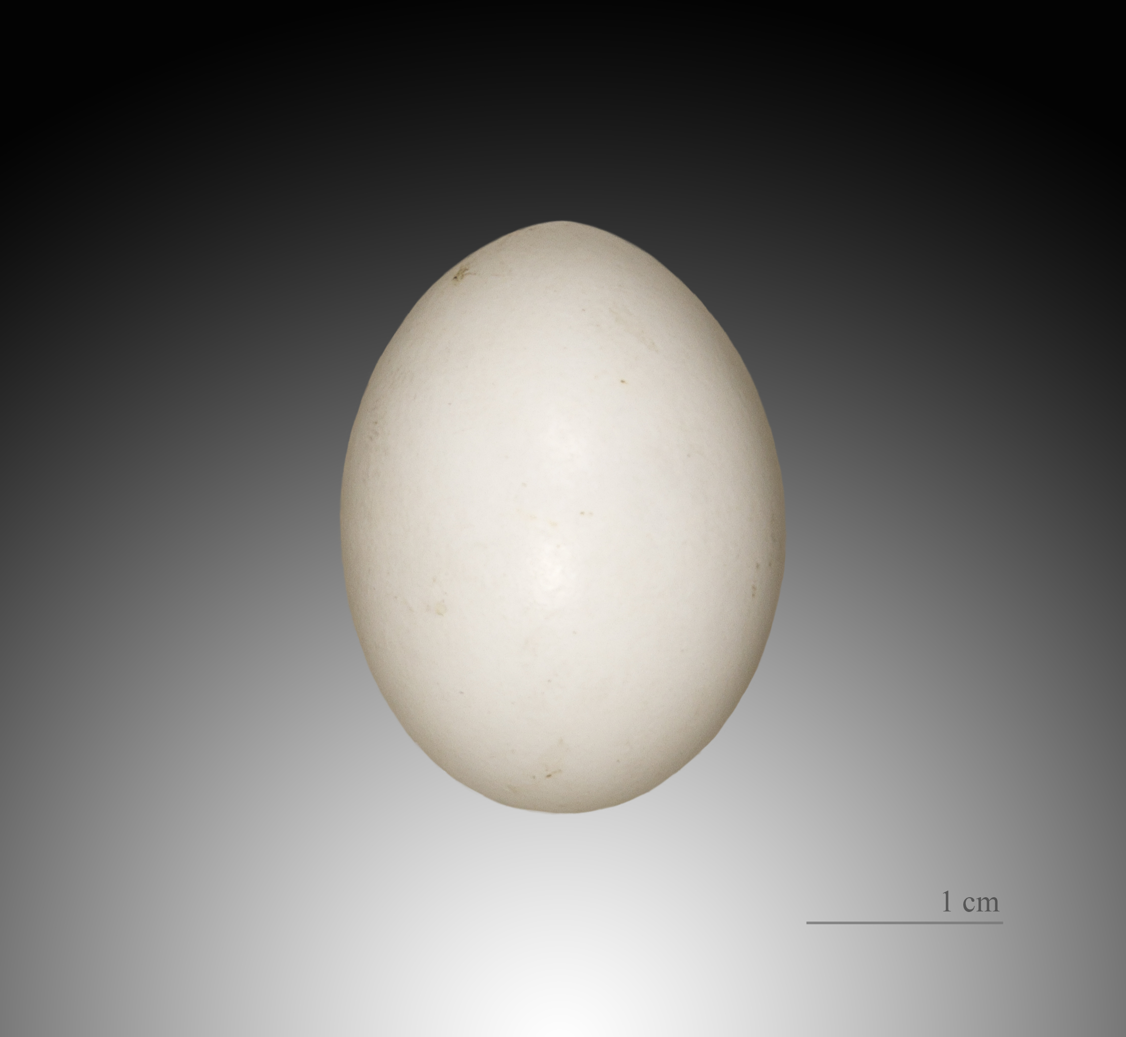 Egg of European Turtle Dove. Collection of Jacques Perrin de Brichambaut.